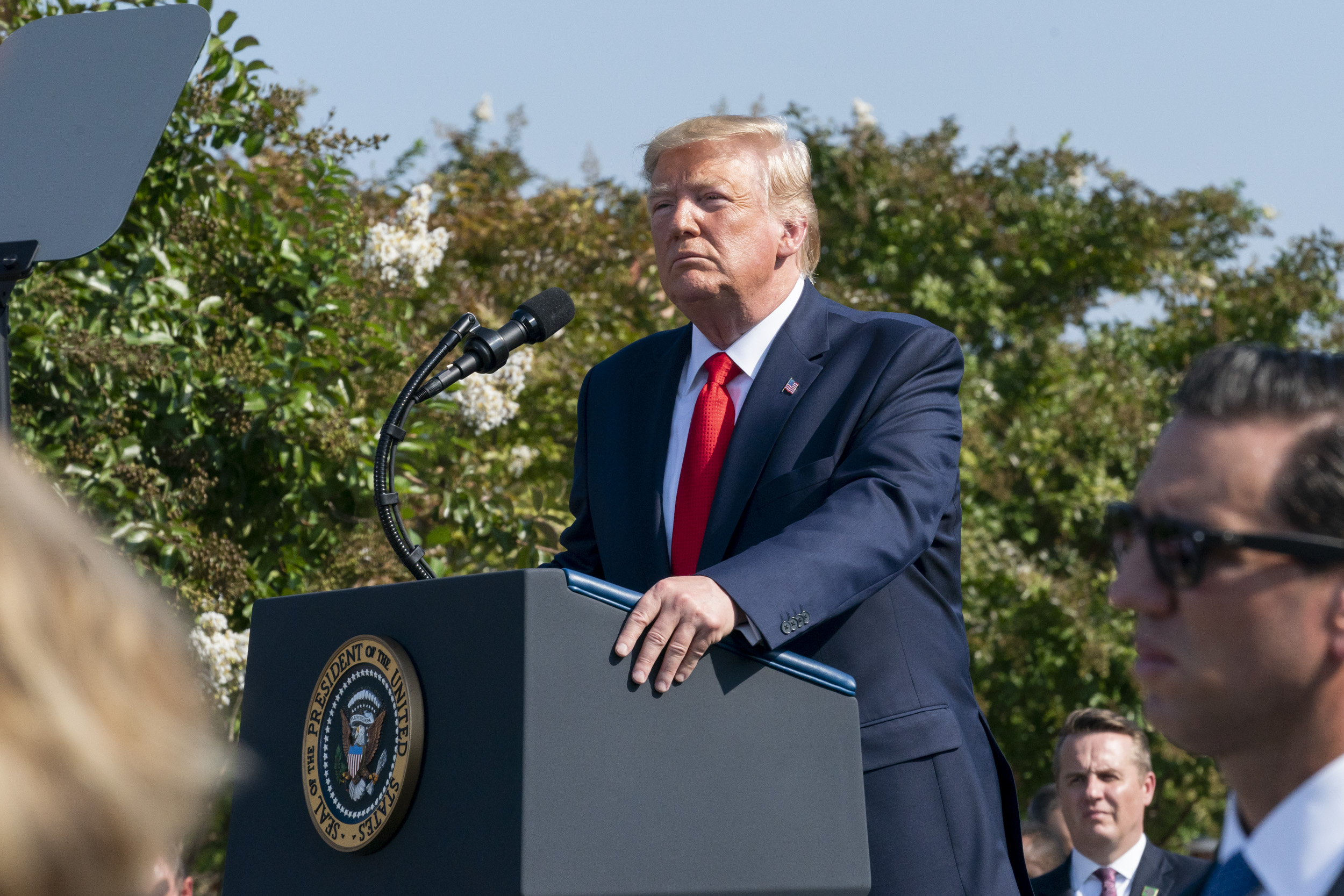 President Donald J. Trump delivers remarks at a September 11th Pentagon Observance Ceremony Wednesday, Sep.11, 2019, at the Pentagon in Arlington, Va. (Official White House Photo by Andrea Hanks)